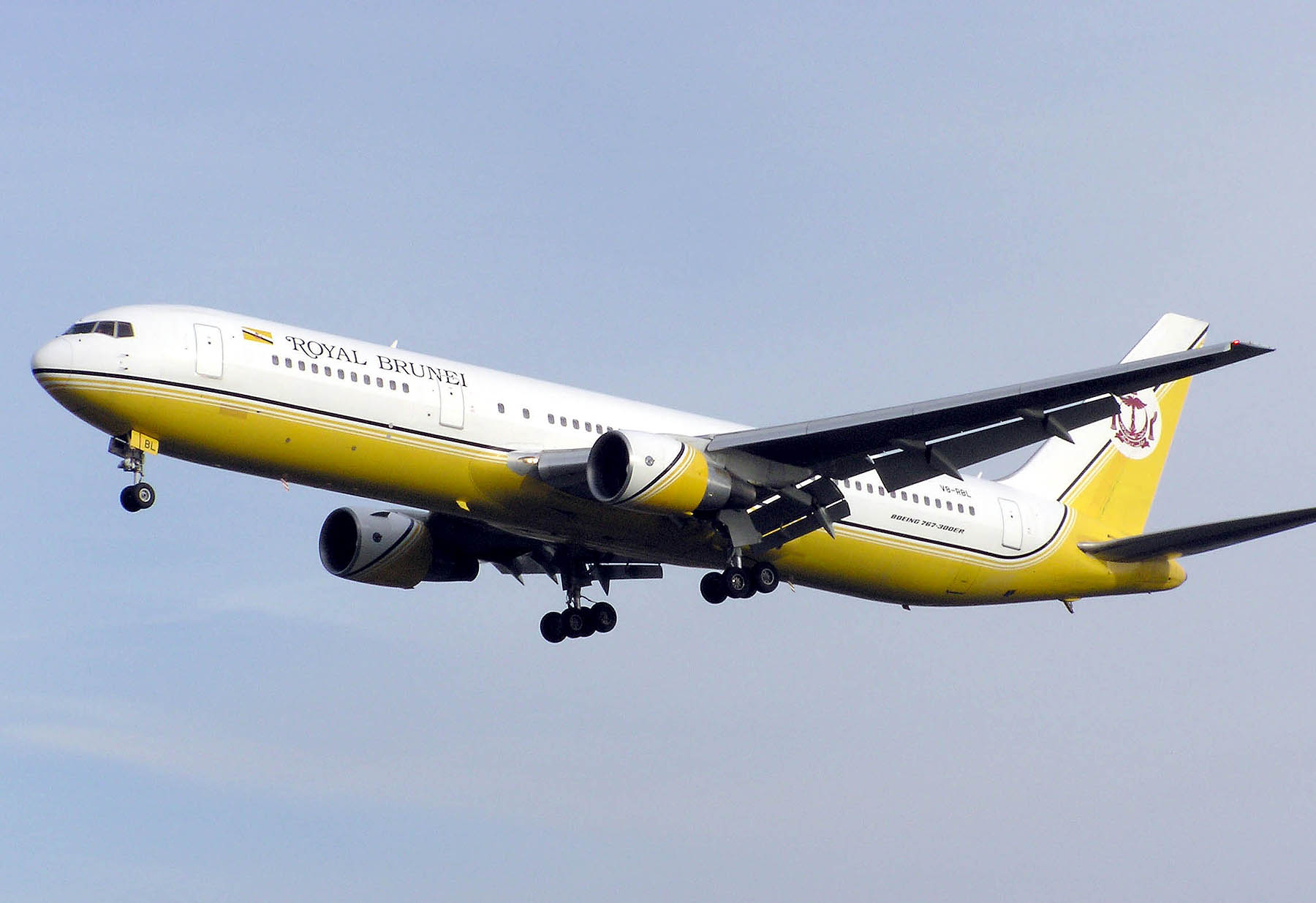 Royal Brunei Boeing 767-300ER (V8-RBL) landing at London (Heathrow) Airport, England. Photographed by Adrian Pingstone in November 2005 and released to the public domain.